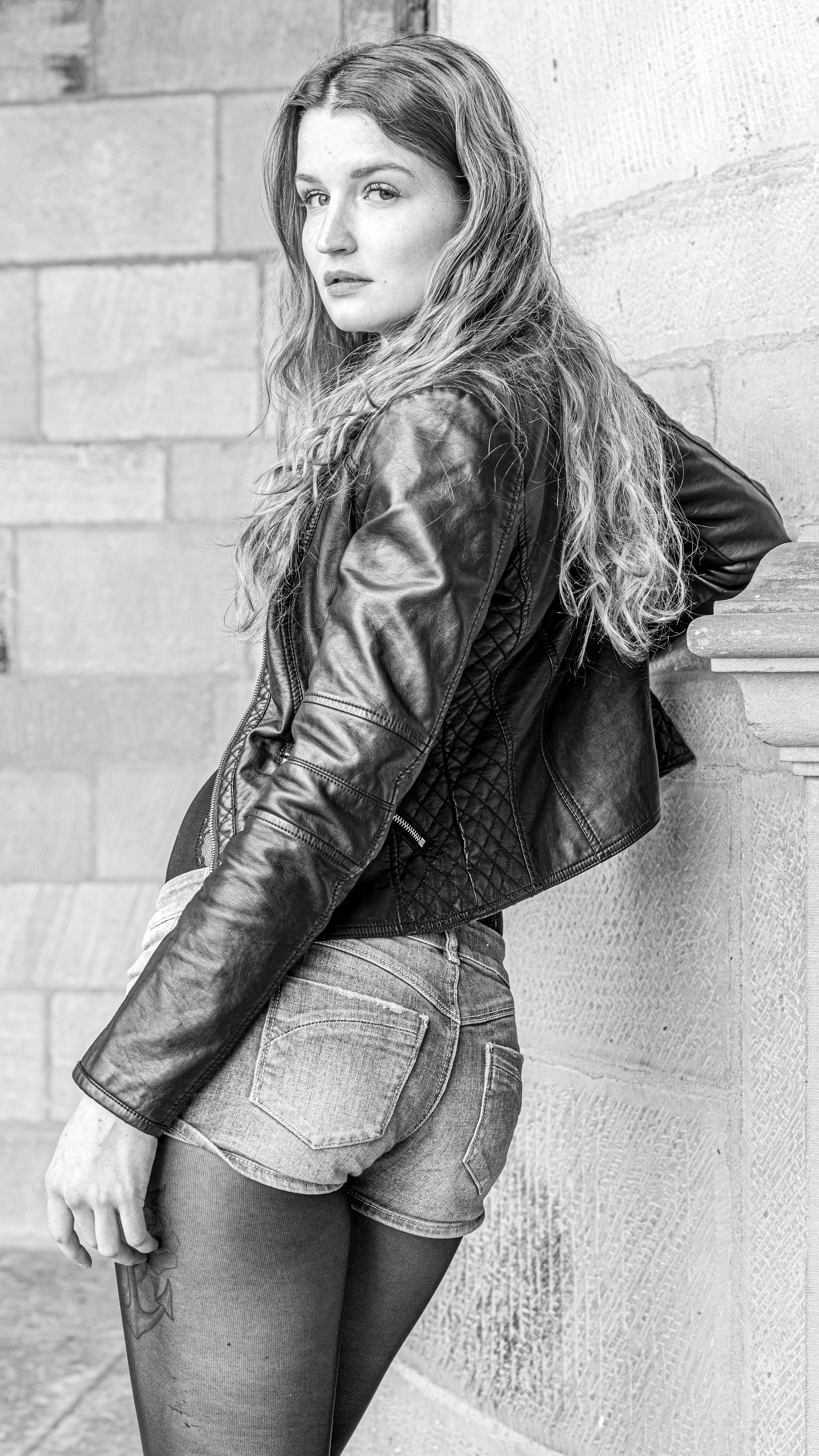 Photo showing a leather jacket with quilted details. Worn with low rise denim shorts and a bodysuit over sheer to waist tights. Image taken with available light. Modelled by ModelTanja.